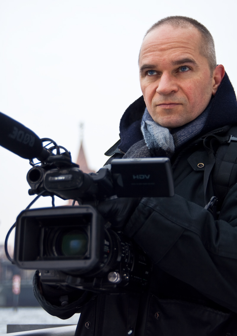 Filmdirector Jakob Schäuffelen in Berlin, Germany